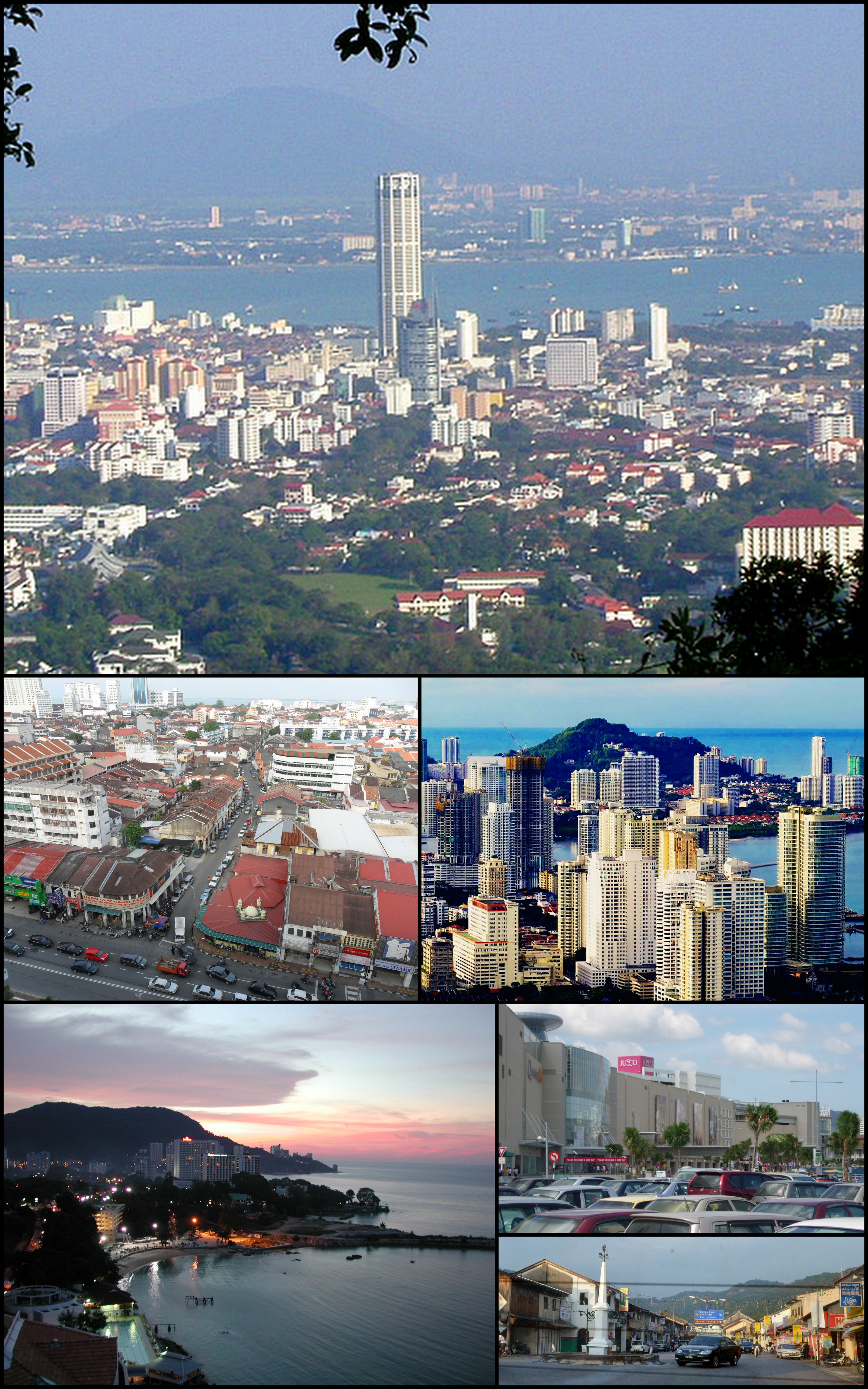 A composite image of Penang Island, encompassing its capital city George Town, Bayan Lepas and Balik Pulau.